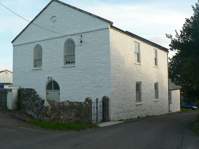 Wesleyan Chapel, Balwest. A Grade II listed building built in 1829.